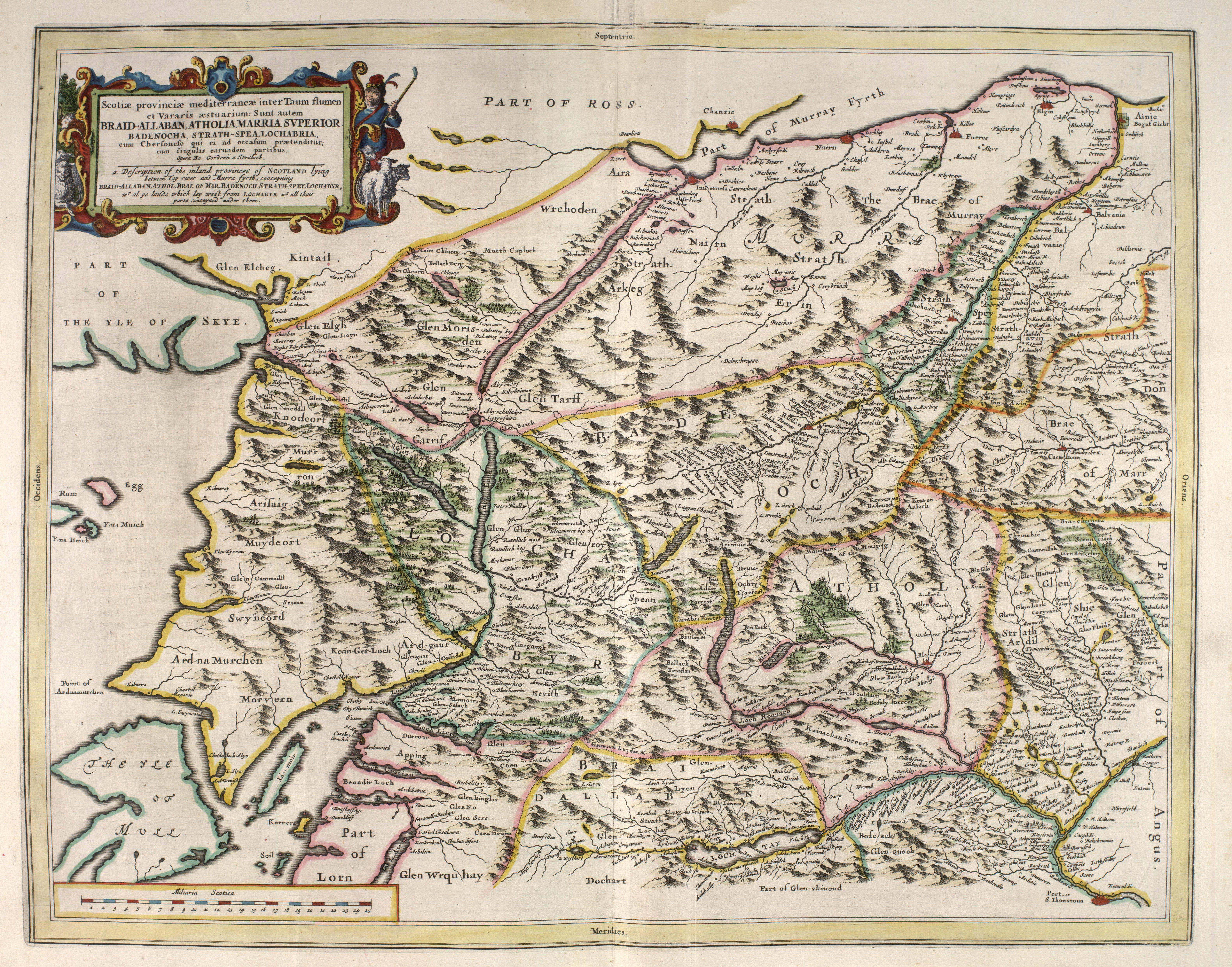 BRAID-ALLABAN - The Central Highlands